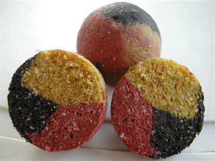 Boilies (English carp bait)